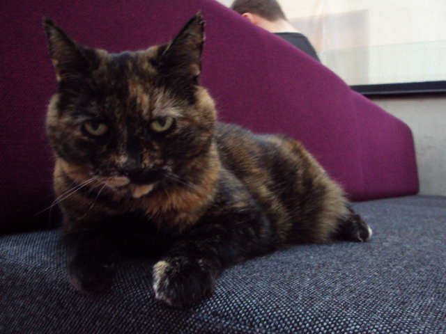 SUSU the Cat, the resident pet of the University of Southampton Students' Union (SUSU) as seen during the 2012/12 academic year.